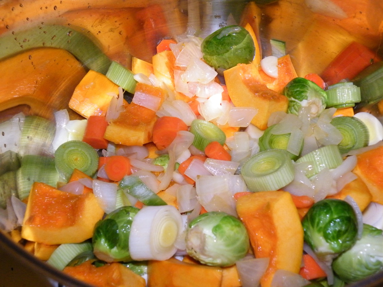 making vegetable soup - frying ingredients